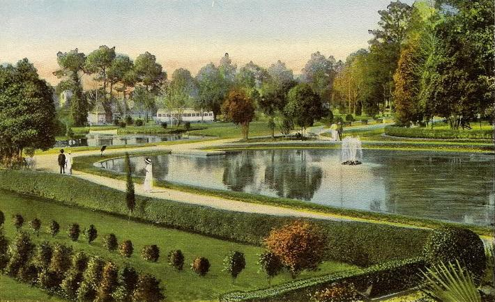 Postcard image of lakes at Riverside Park in Jacksonville, Florida.